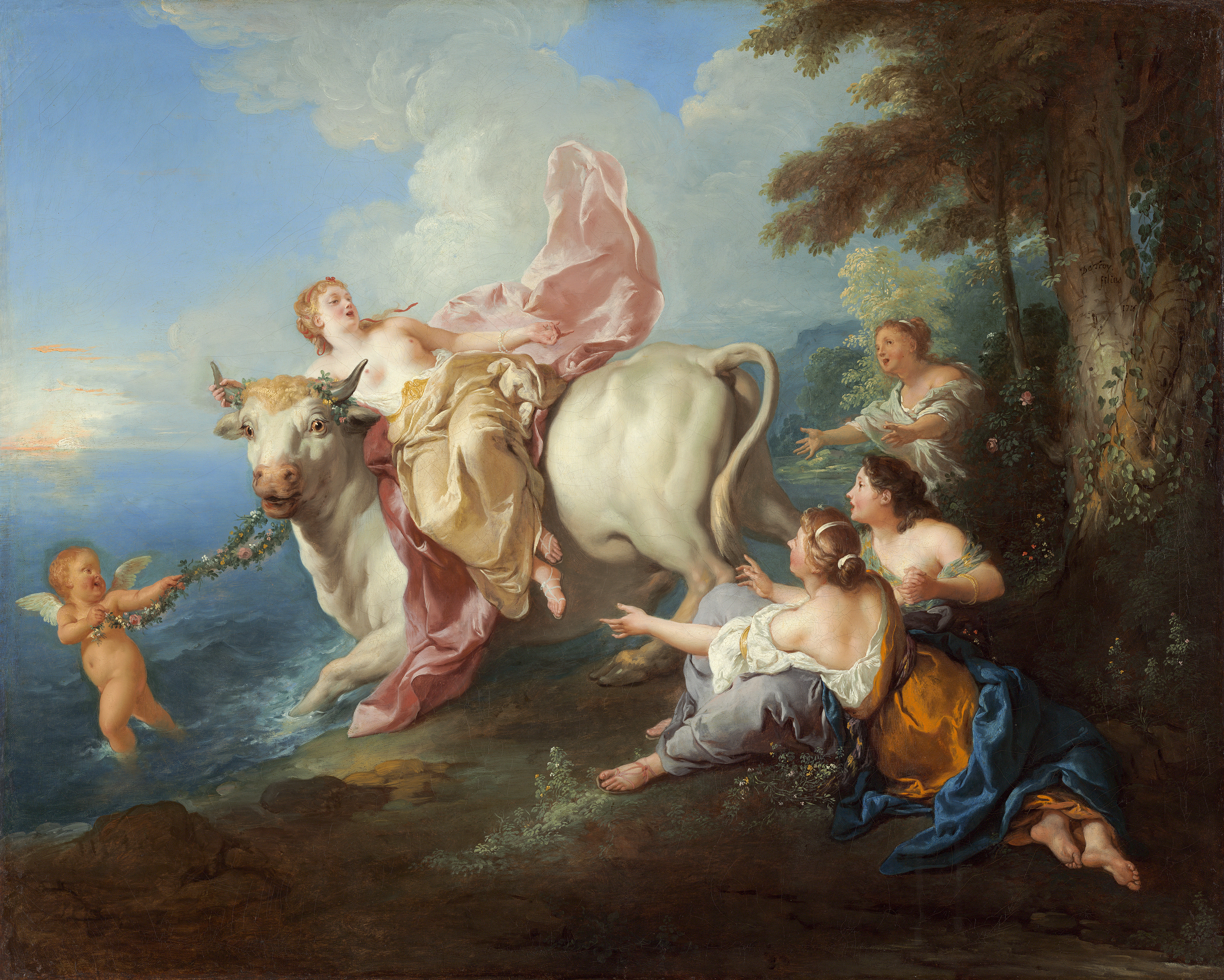 Jean François de Troy (French, 1679 - 1752 ), The Abduction of Europa, 1716, oil on canvas, Chester Dale Fund. National Gallery of Art, Washington